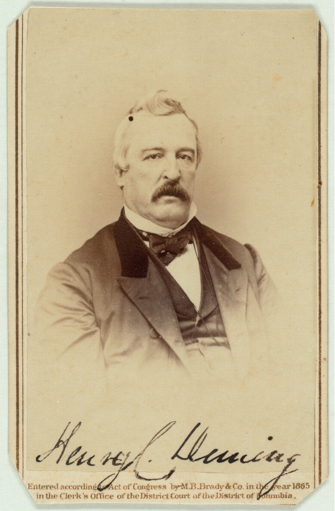 Henry Champion Deming (1815 - 1872), Congressman for Connecticut, Mayor of New Orleans